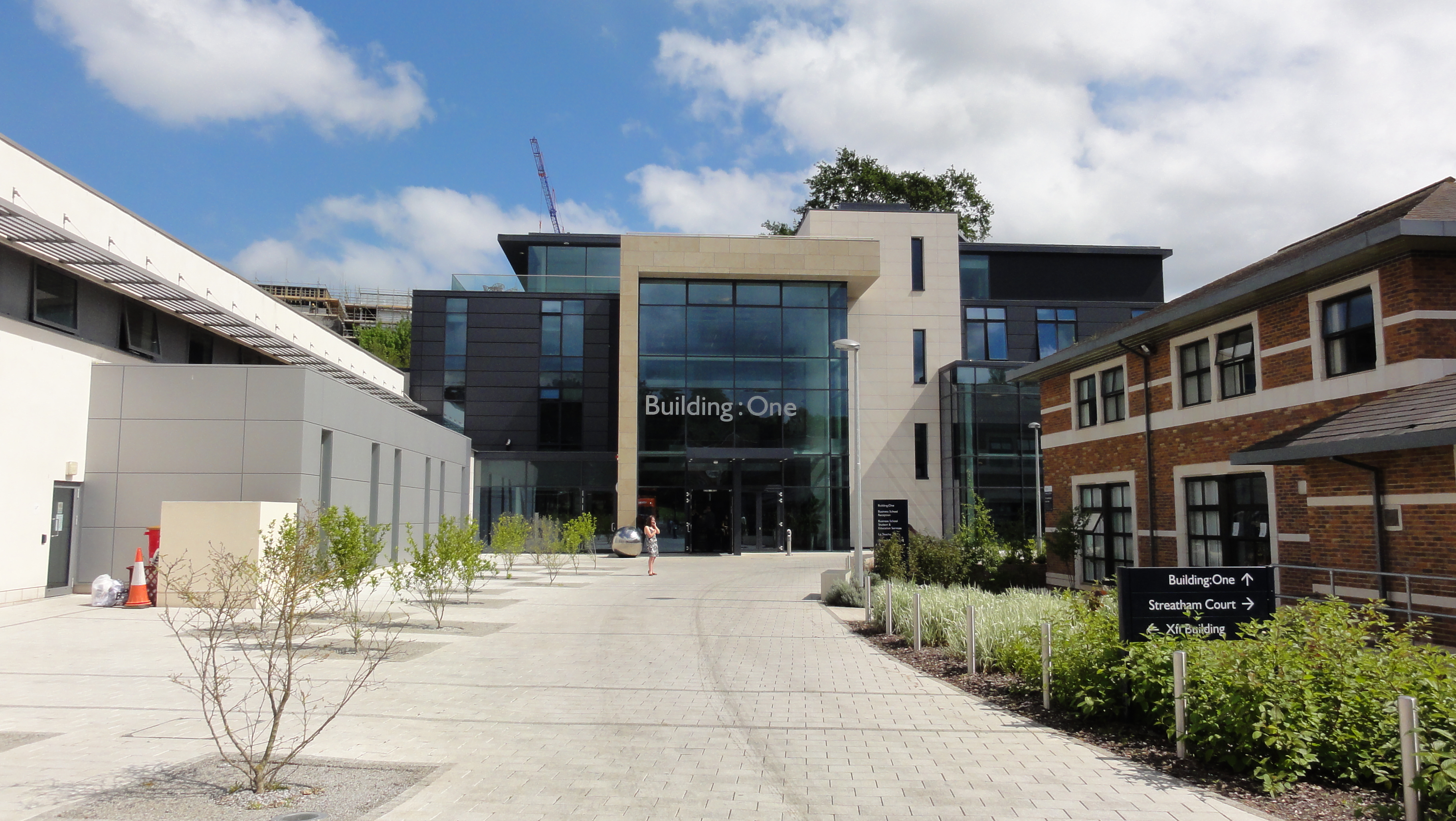 University of Exeter Business School